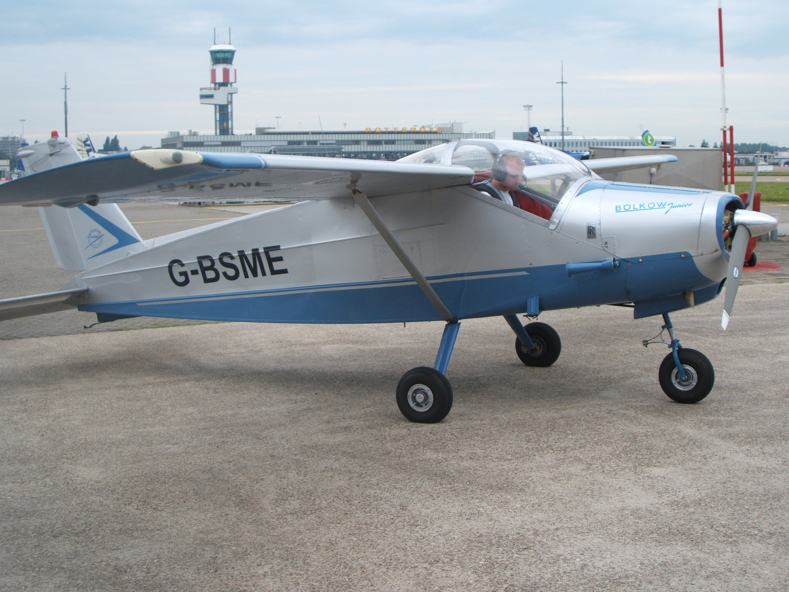 1966 Bolkow Bo.208C Junior, Rotterdam Airport, The Netherlands.